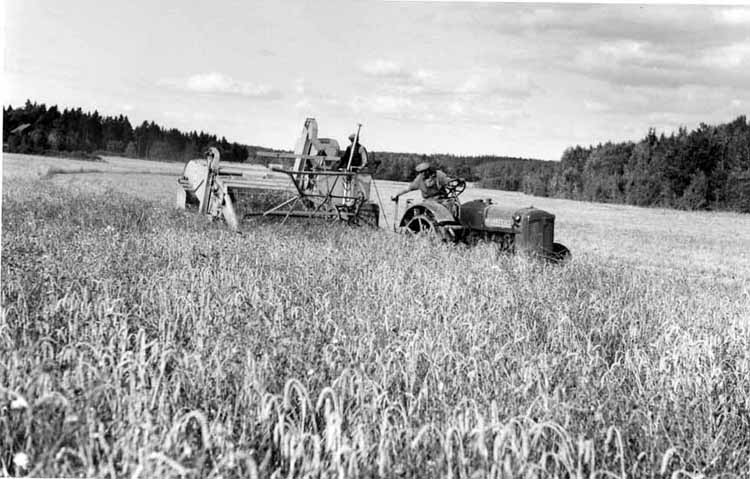 The croft Råsten, Viksjö, Järfälla, Stockholm County. Combined harvester at work about 800 m northeast of the croft Råsten, which was below Görväln farm.